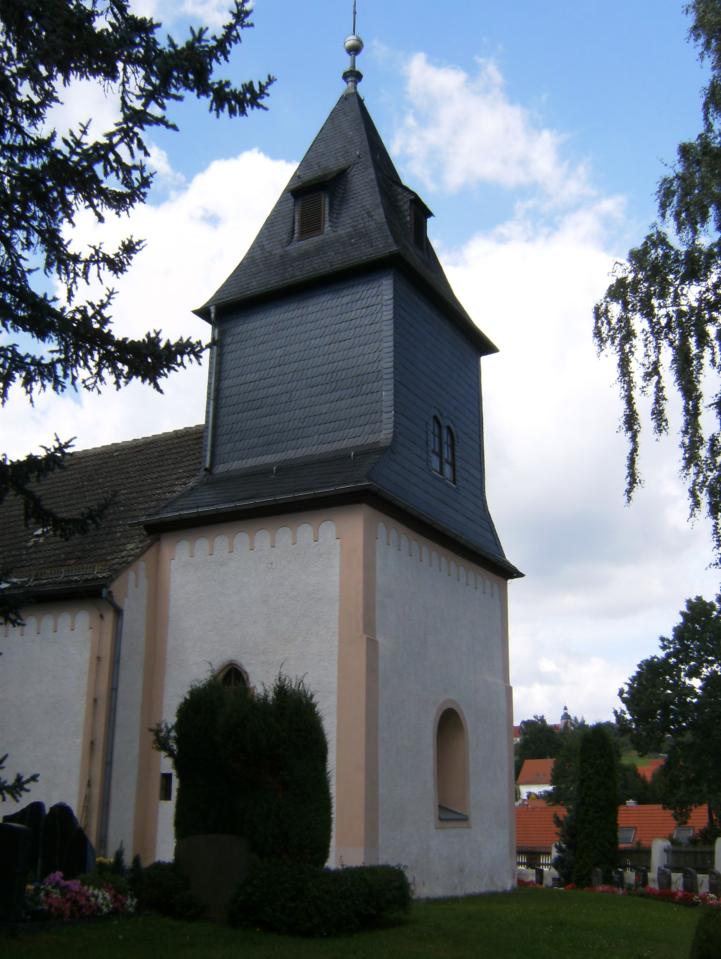 Gera Unterröppisch, church.